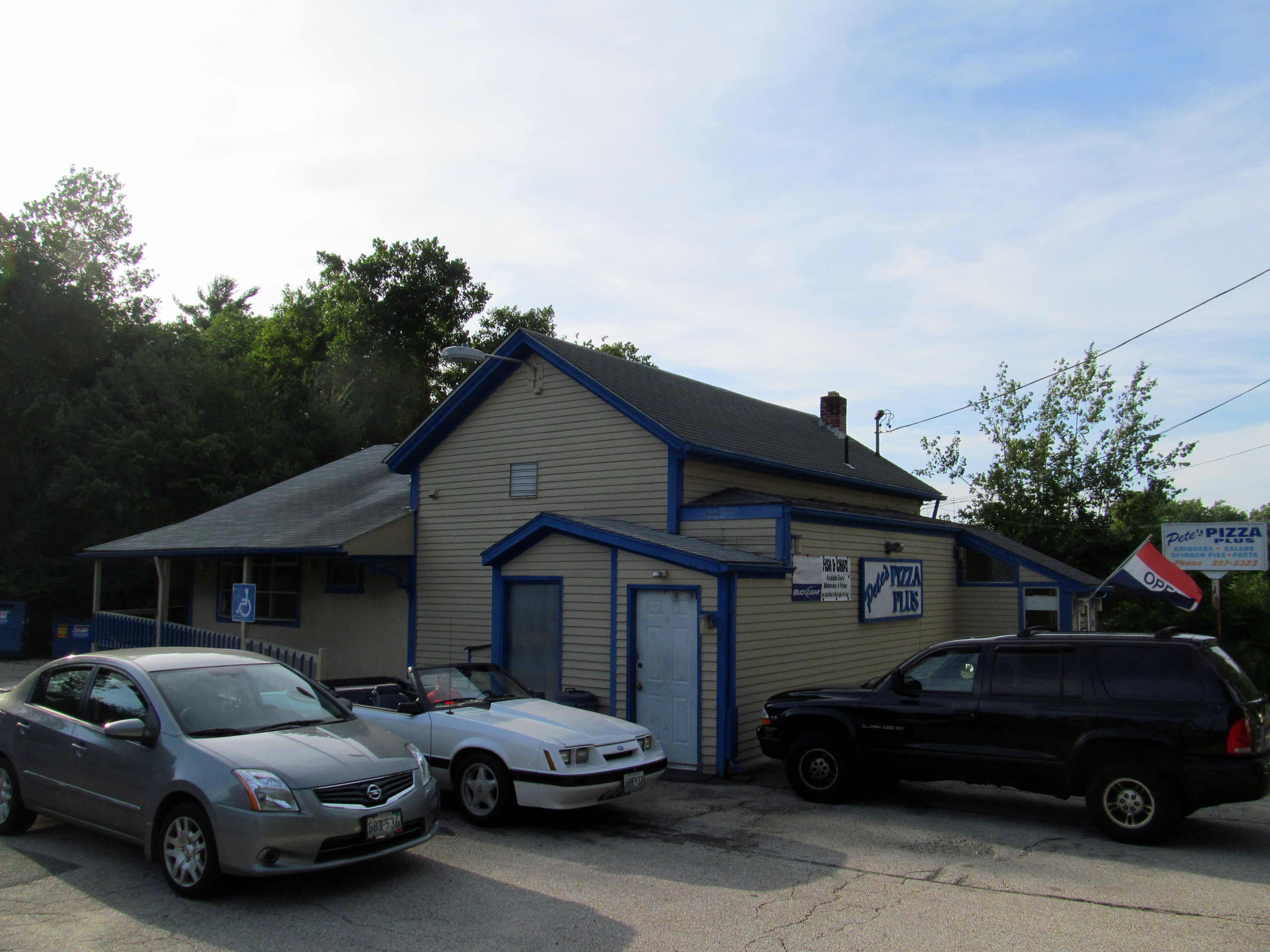 Former train station, now a restaurant, in Coventry, Rhode Island